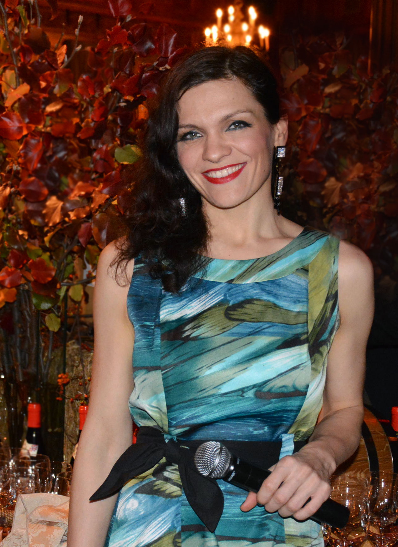 French singer Floanne after her Beaujolais Nouveau concert at the Harmonie Club.